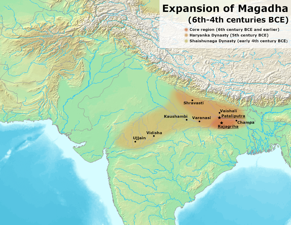 Sources: Schwartzberg, J. E. (1992), A Historical Atlas of South Asia: University of Oxford Press Background from Made with GIMP